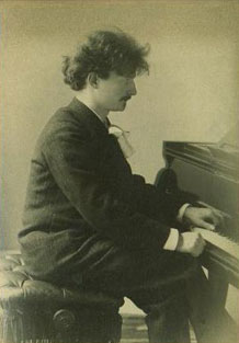 Ignacy Jan Paderewski, Polish pianist, composer and politician.